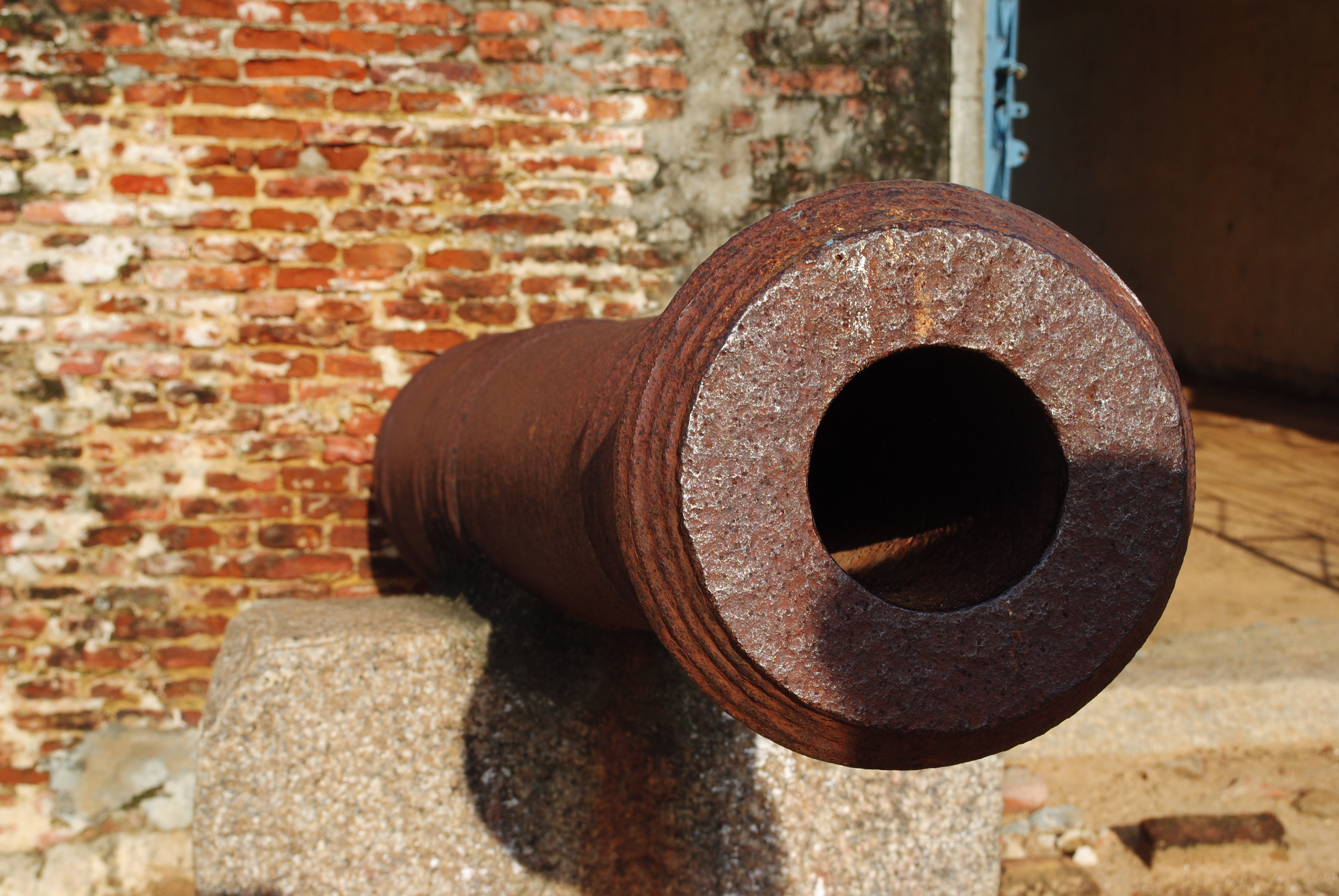 Old rusting cannons dating 17th century